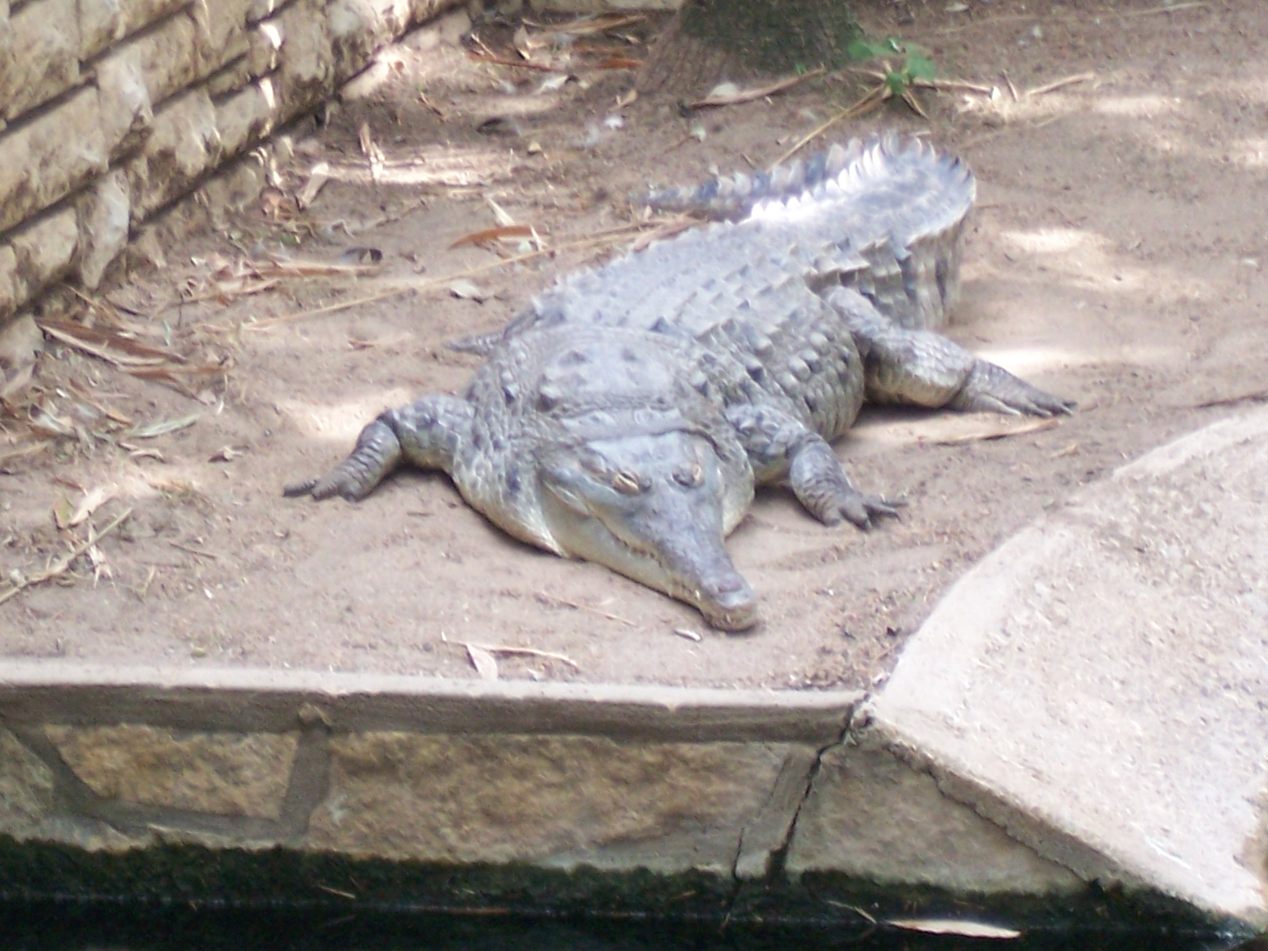 Orinoco Crocodile (crocodylus intermedius) at the San Antonio Zoo.